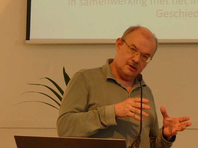 Prof. Dr. Marcel van der Linden, speaking at a Spui25 forum in Amsterdam, The Netherlands on 24 May 2012, titled "Is Marx still relevant?".